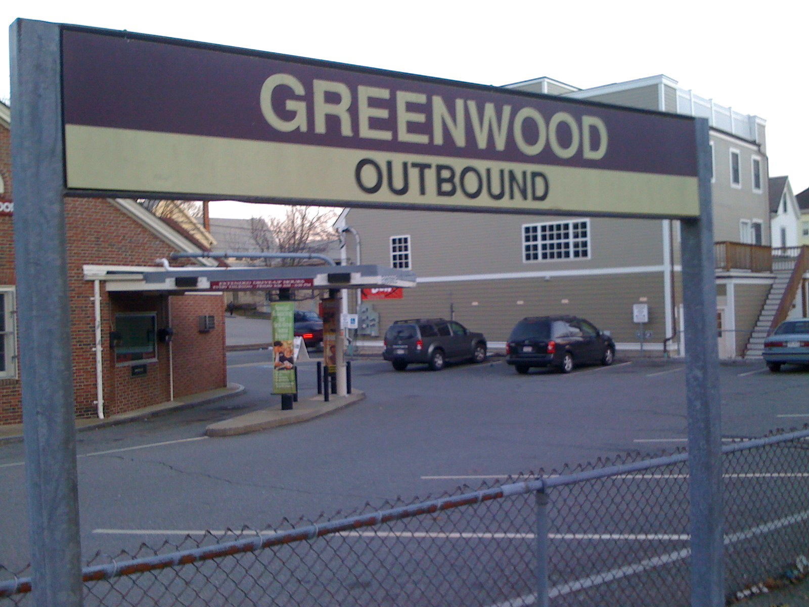 Outbound station sign at MBTA Greenwood station